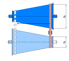 Gear box (variator)